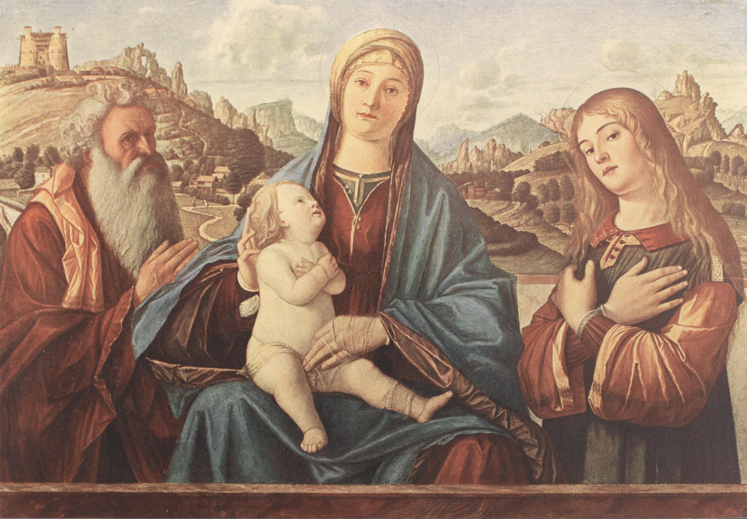 'Madonna and Child with two Saints', by Vittore Carpaccio, ca. 1490. The painting was destroyed or disappeared in Berlin in May 1945, in the Friedrichshain flak tower fire. - Dimensions: 74 x 111 cm